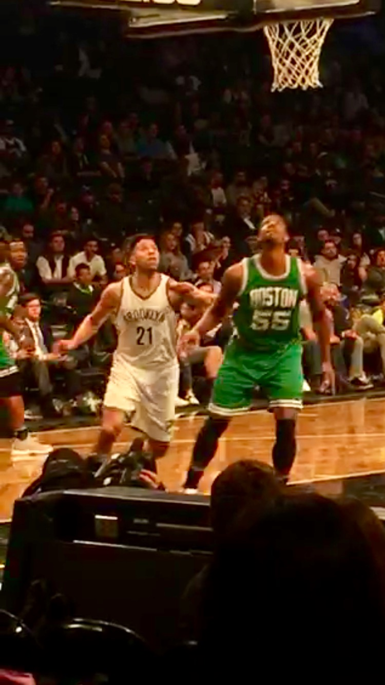 Jordan Mickey gets ready for a rebound